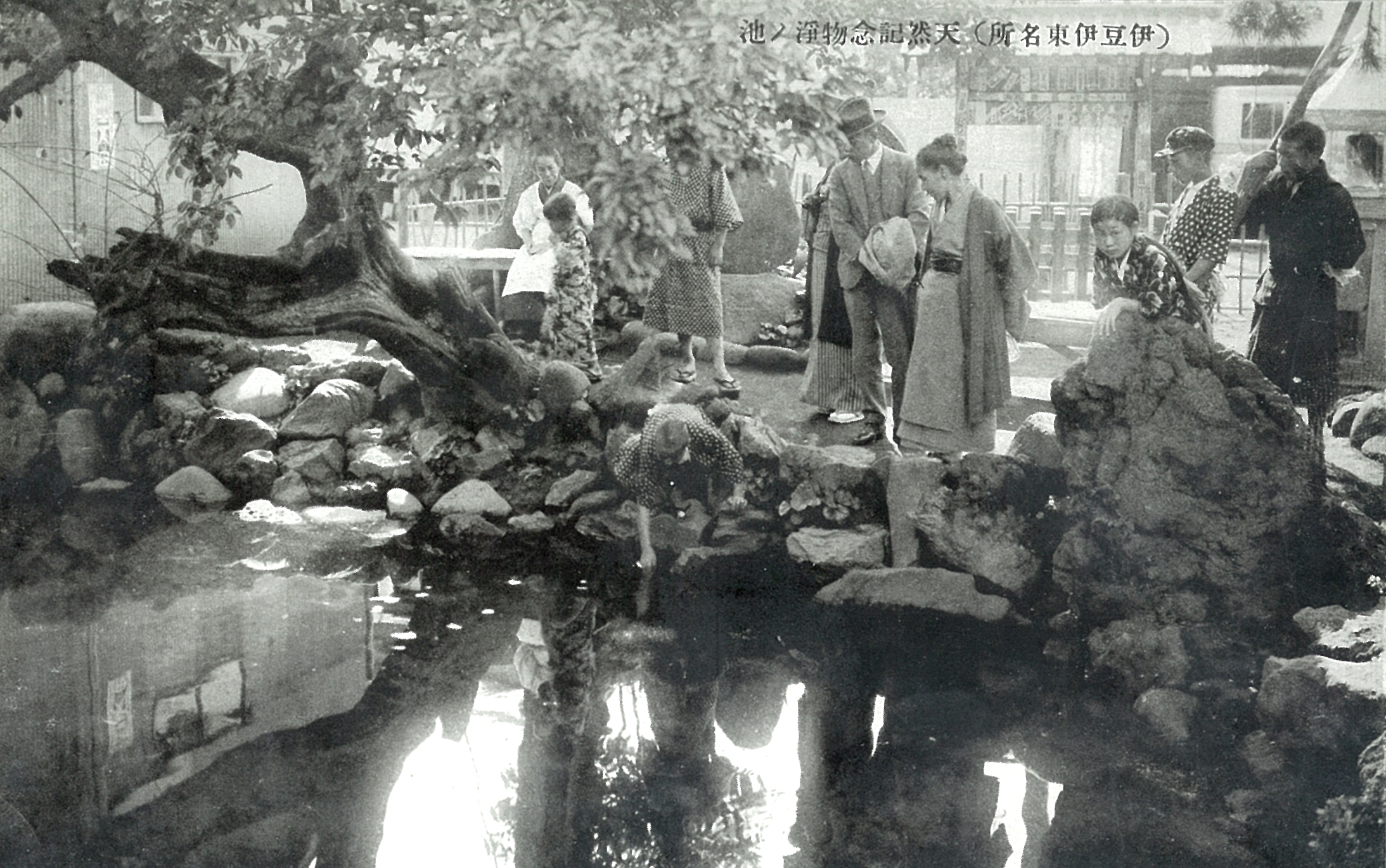 Jono-ike pond postcard.1930s